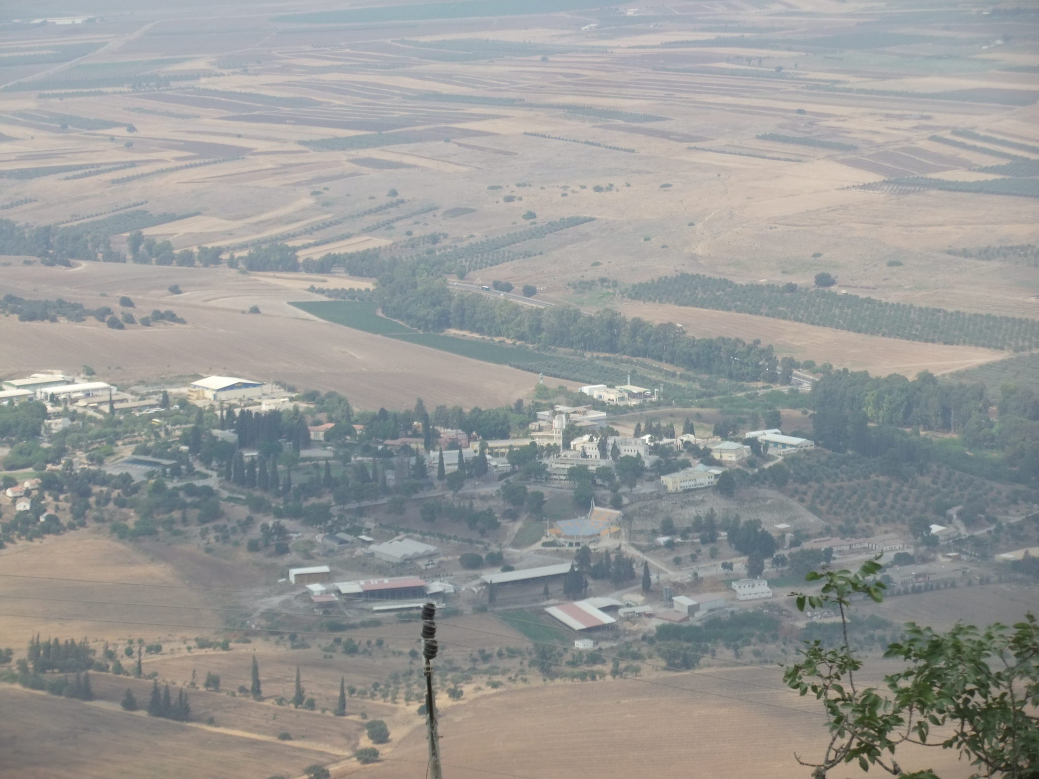 Kadoorie Agricultural High School viewed from the Tavor